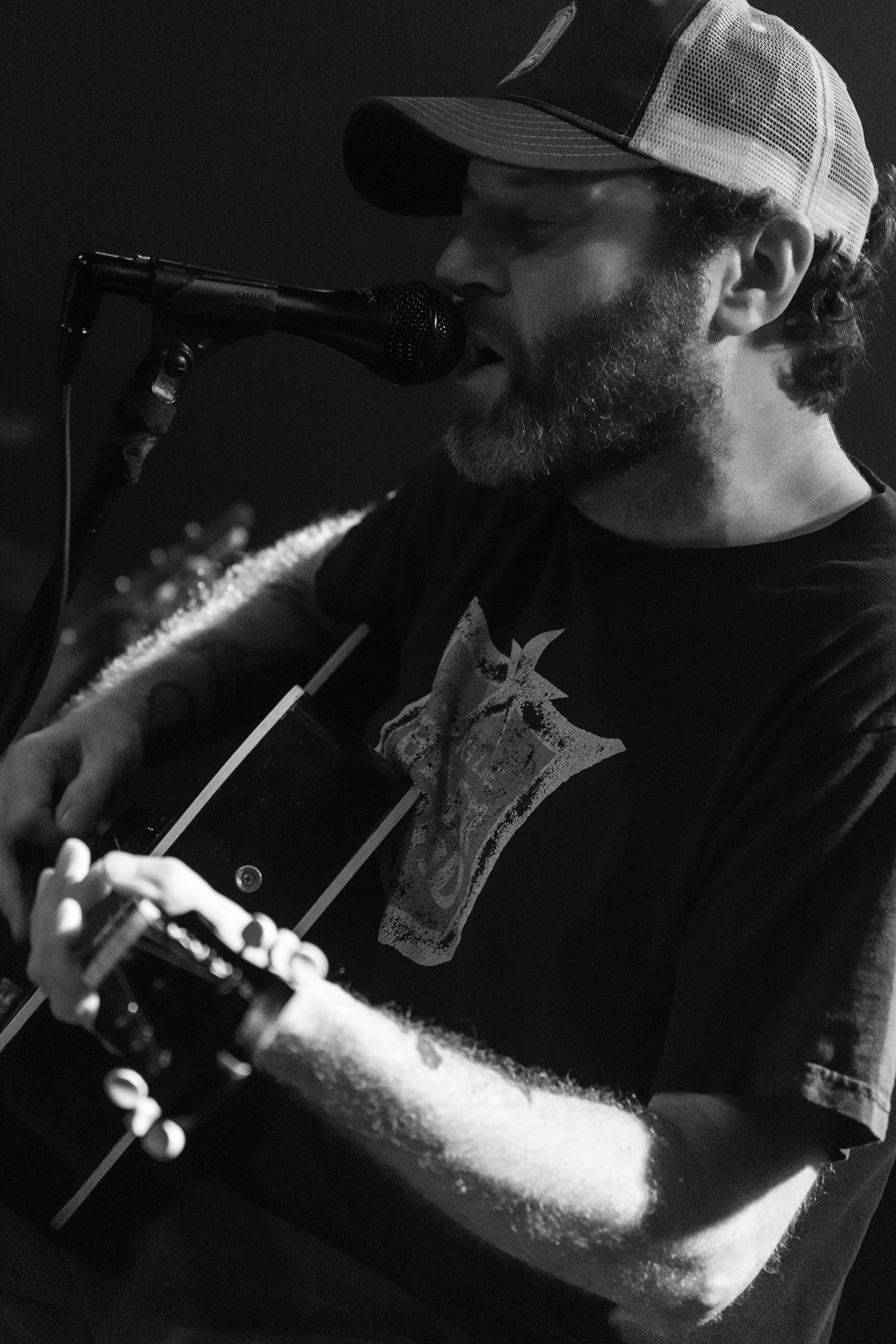 Scott H. Biram performing at Roadburn Festival, april 2015